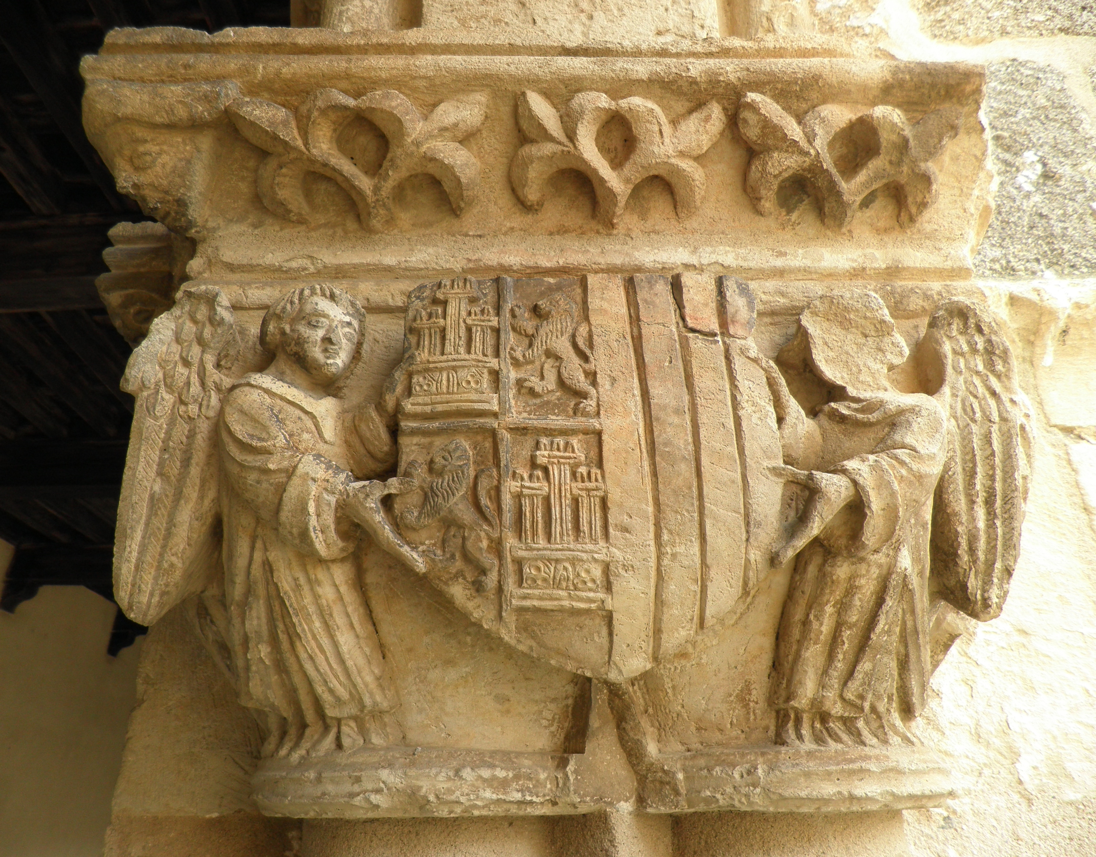 10th capital in easthern corridor of the church of Santa María la Real de Nieva, Segovia province, Spain. Coat of arms of Castille and Aragon with two angels, homage to King John II, and his wife Mary of Aragon